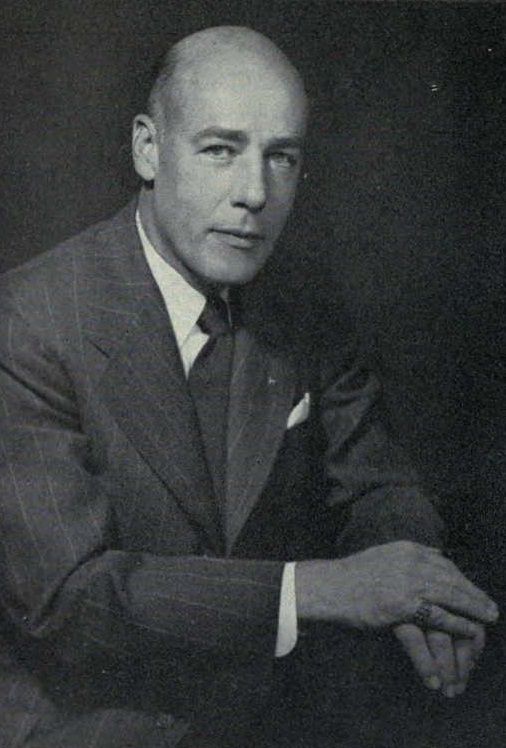 Photograph of Walter B. Rea.